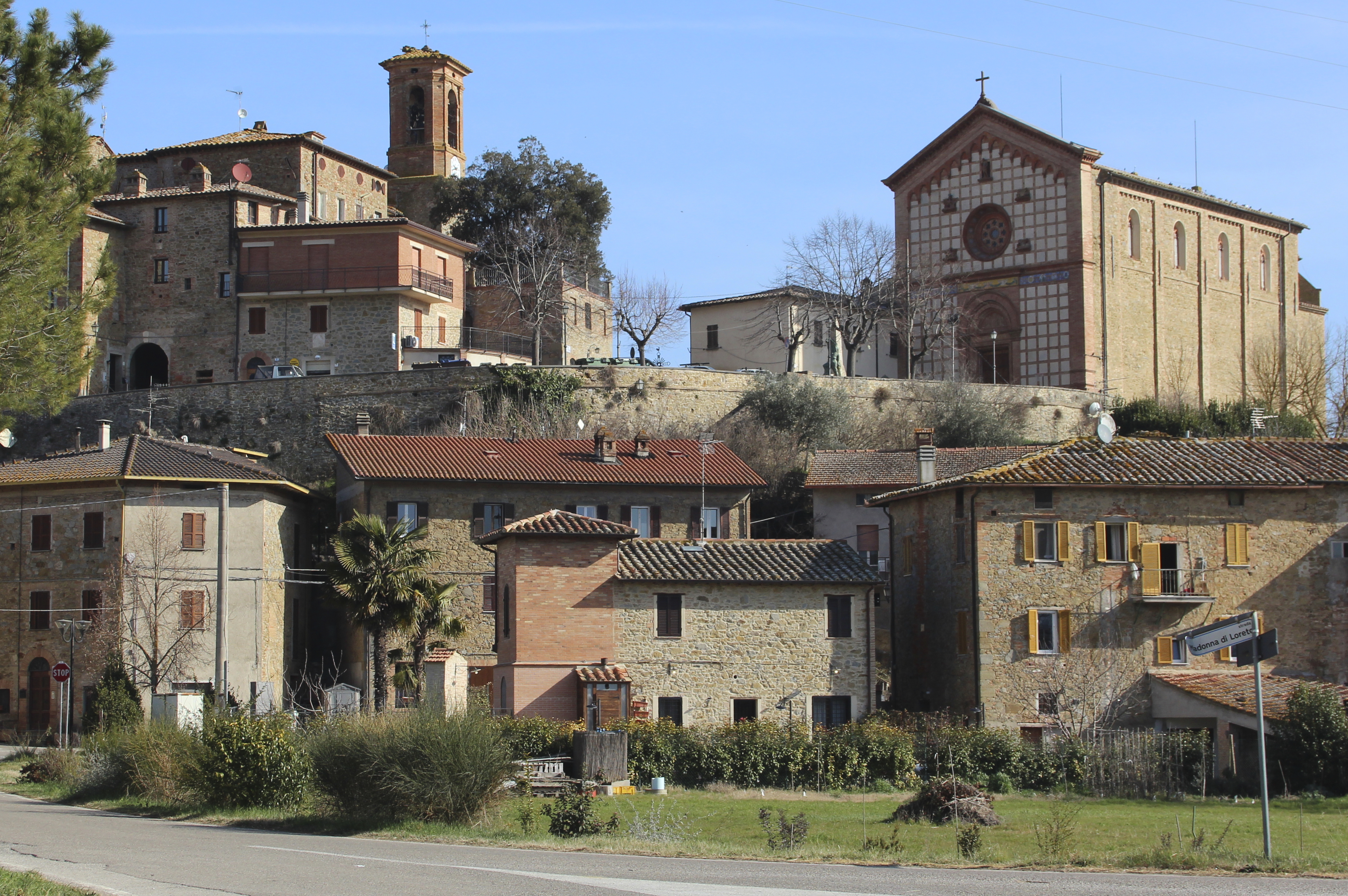 Castiglione della Valle, hamlet of Marsciano, Province of Perugia, Umbria, Italy